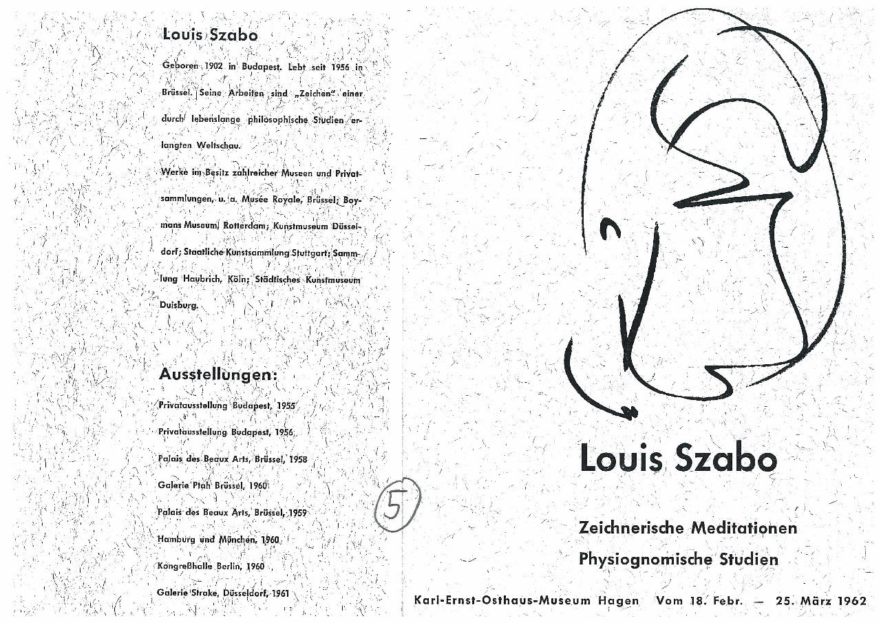 Invitation card to Lajos Szabó's exhibition in Germany. Karl-Ernst-Osthaus Museum, Hagen 1962